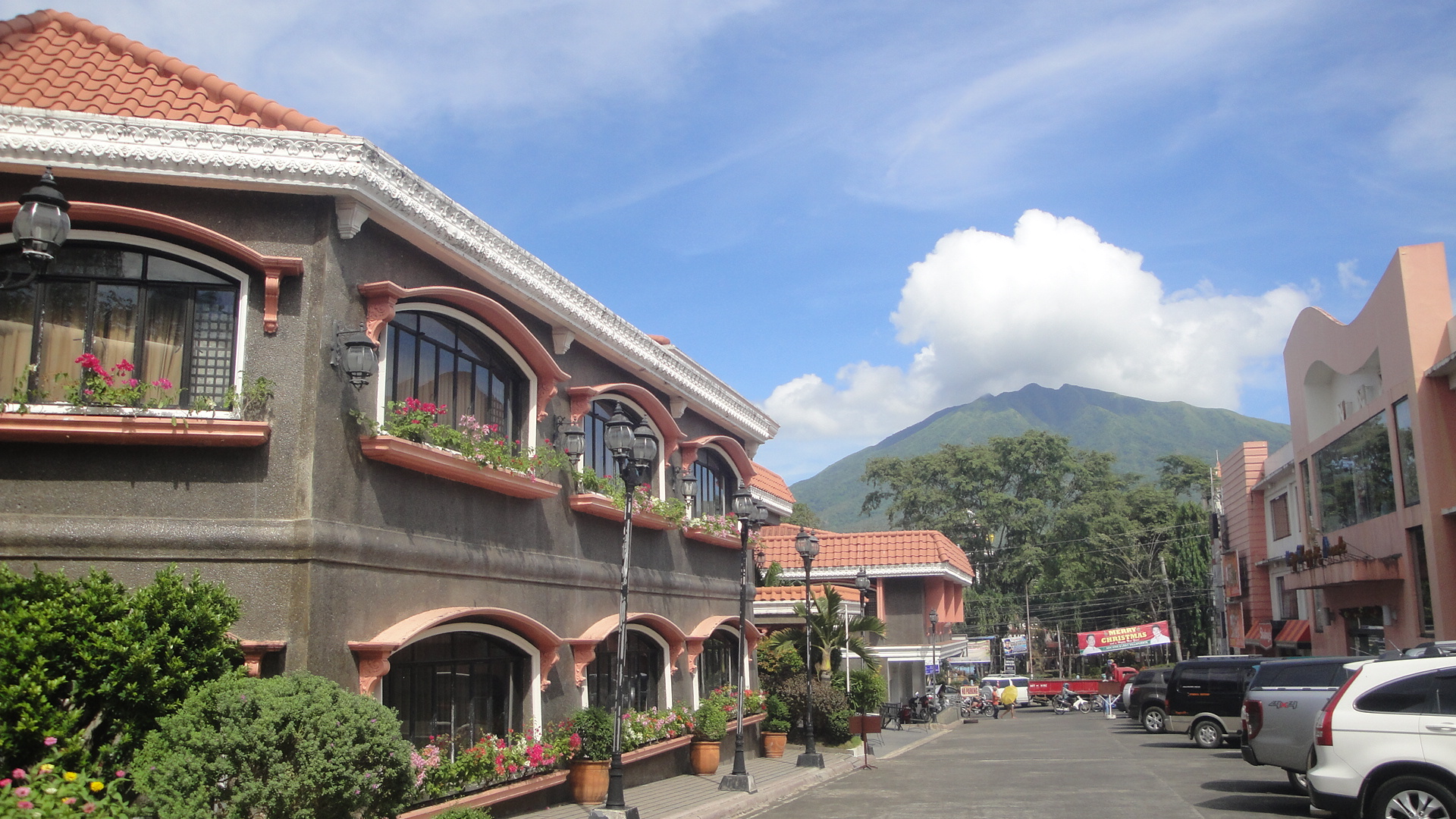 The authentic design of Iriga Plaza Hotel located at San Francisco, Iriga City, Camarines Sur.